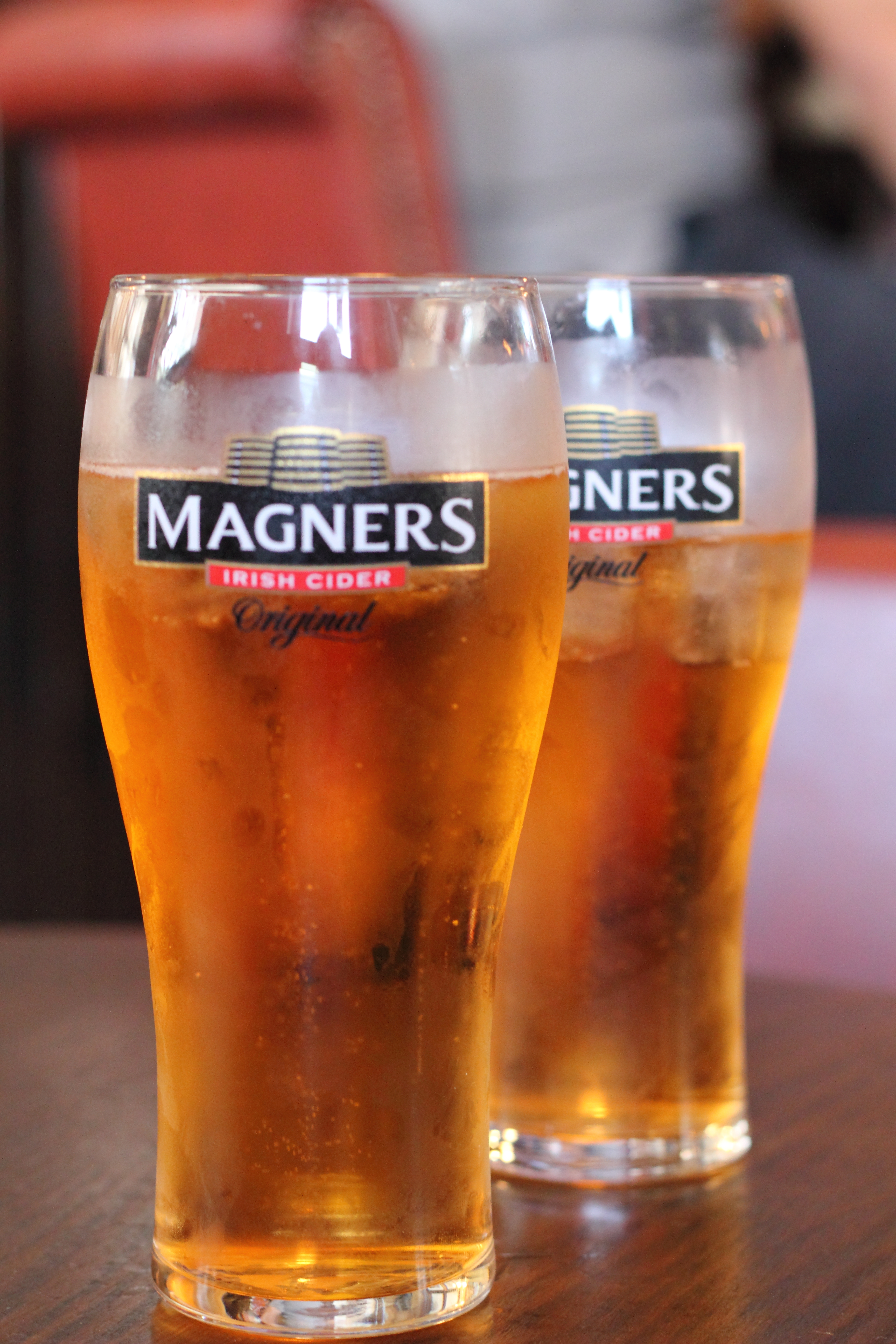 2=Two pints of Magners